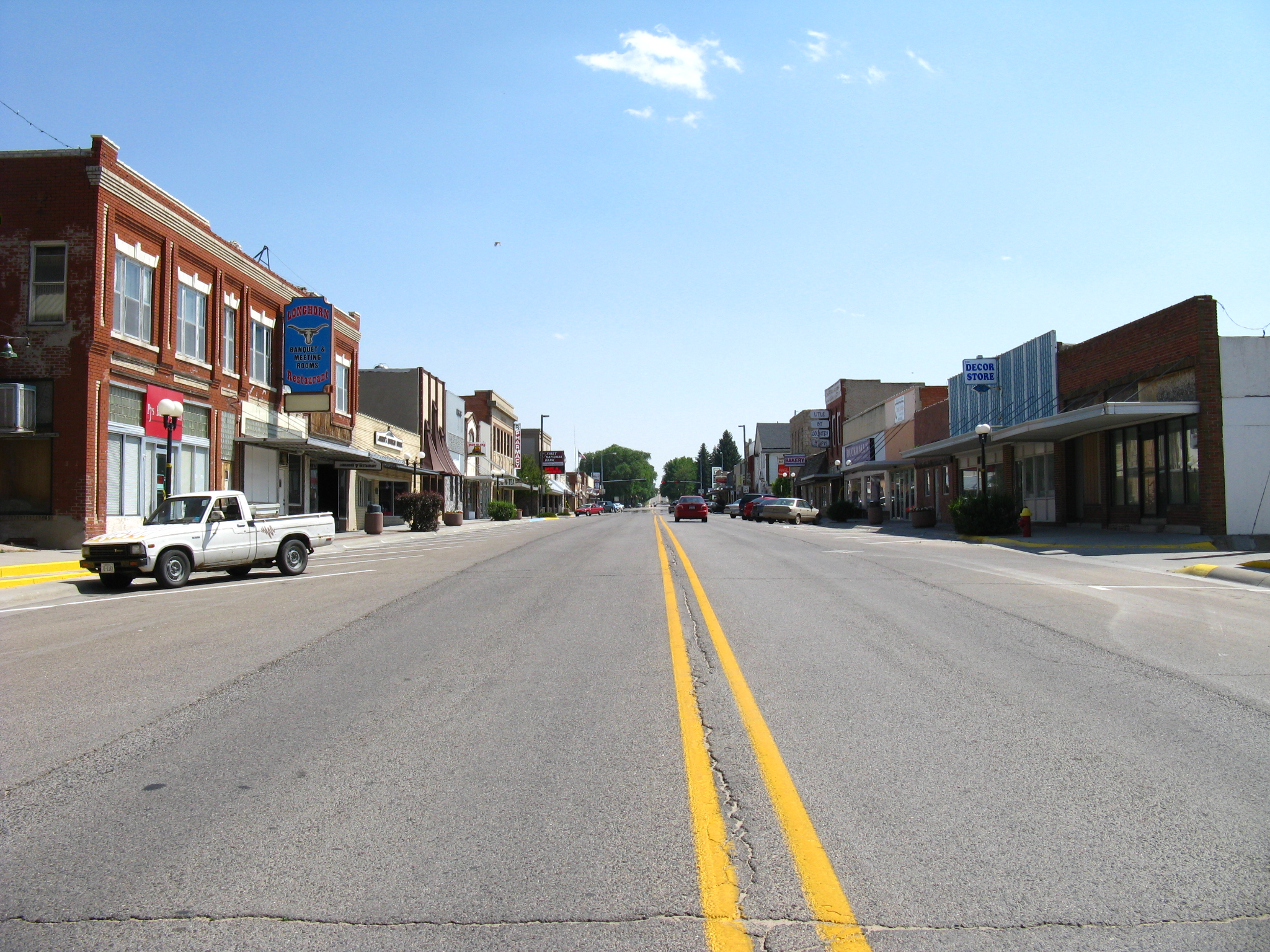 Kimball, Nebraska's Main street in Summer of 2008.